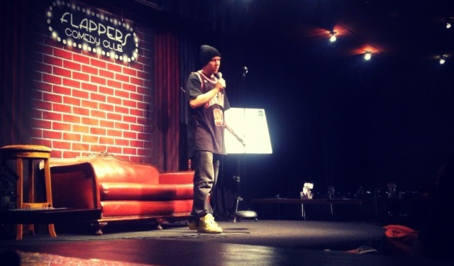 Donovan Strain performing stand-up at Flappers Comedy Club in Burbank, CA 2013